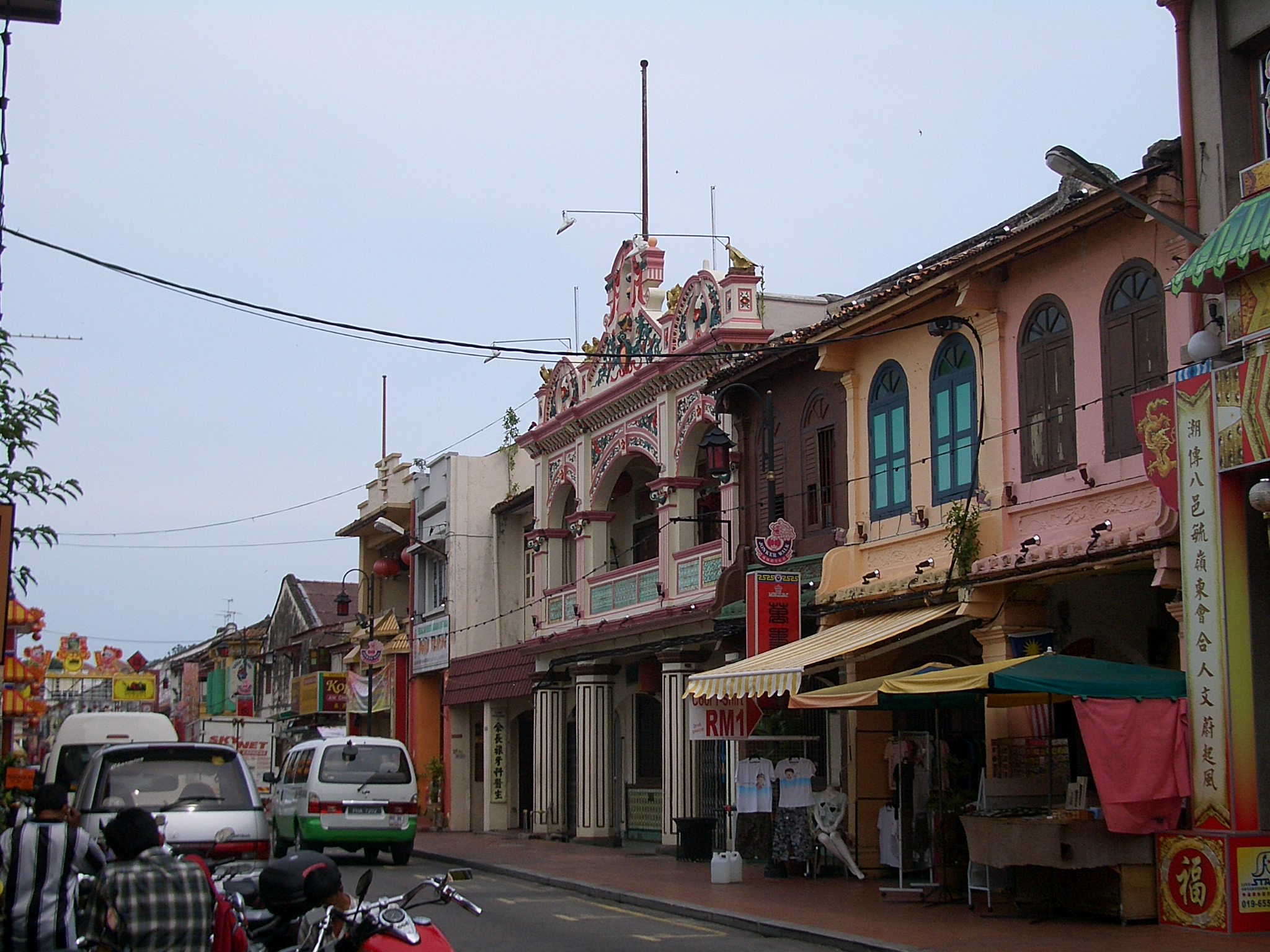 Melaka Chinatown (Baru Cina)